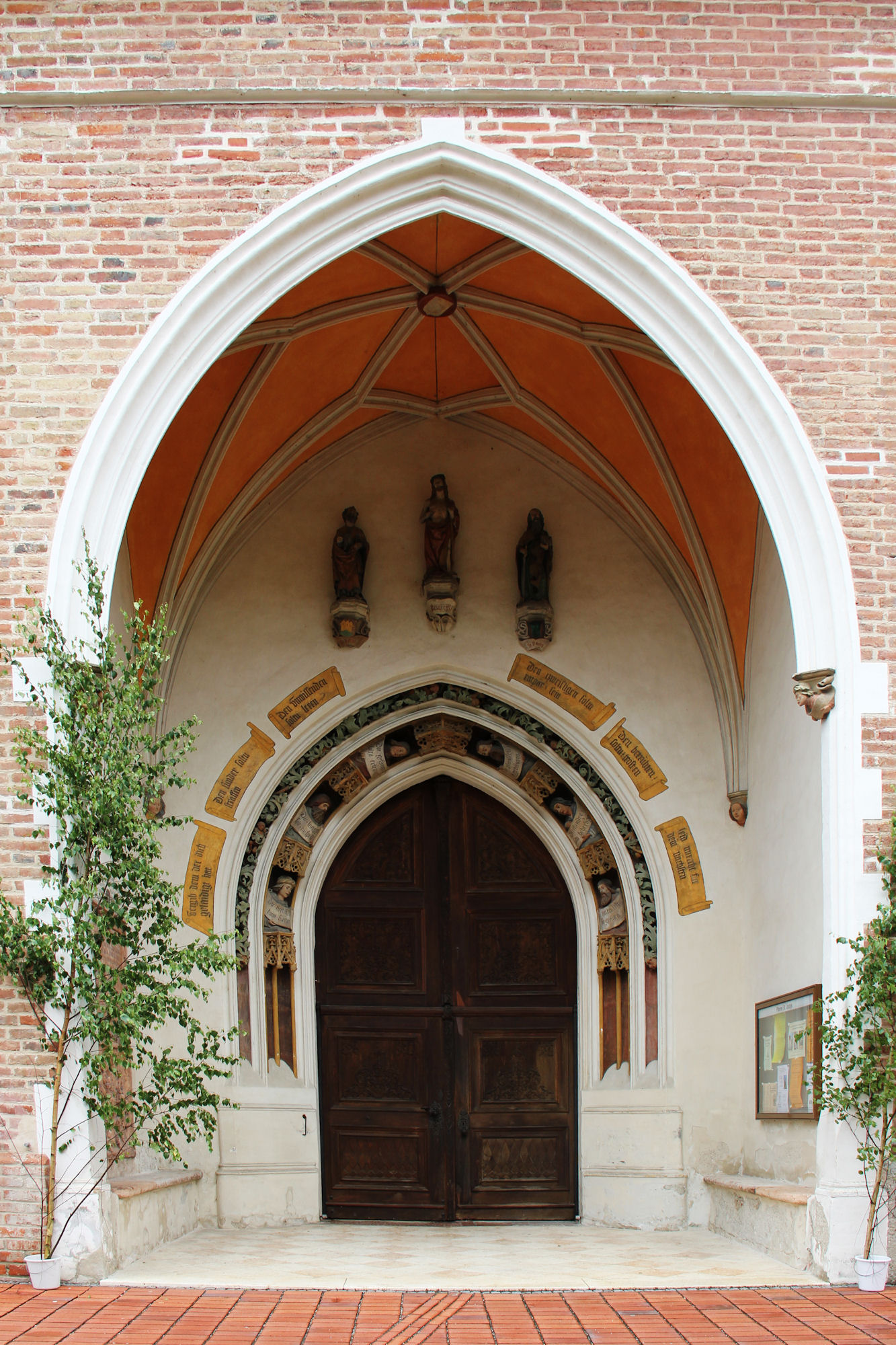 Church of St. Jodok Native nameSt. JodokLocationLandshut, Lower Bavaria, GermanyCoordinates48° 32′ 11″ N, 12° 09′ 28″ E Authority control